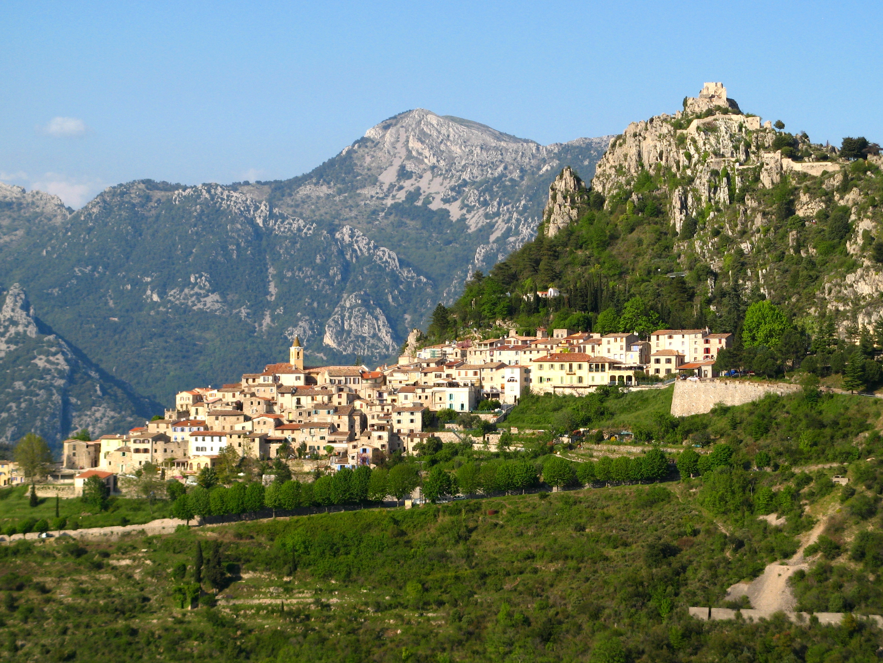 Sainte-Agnès (Alpes-Maritimes): general view